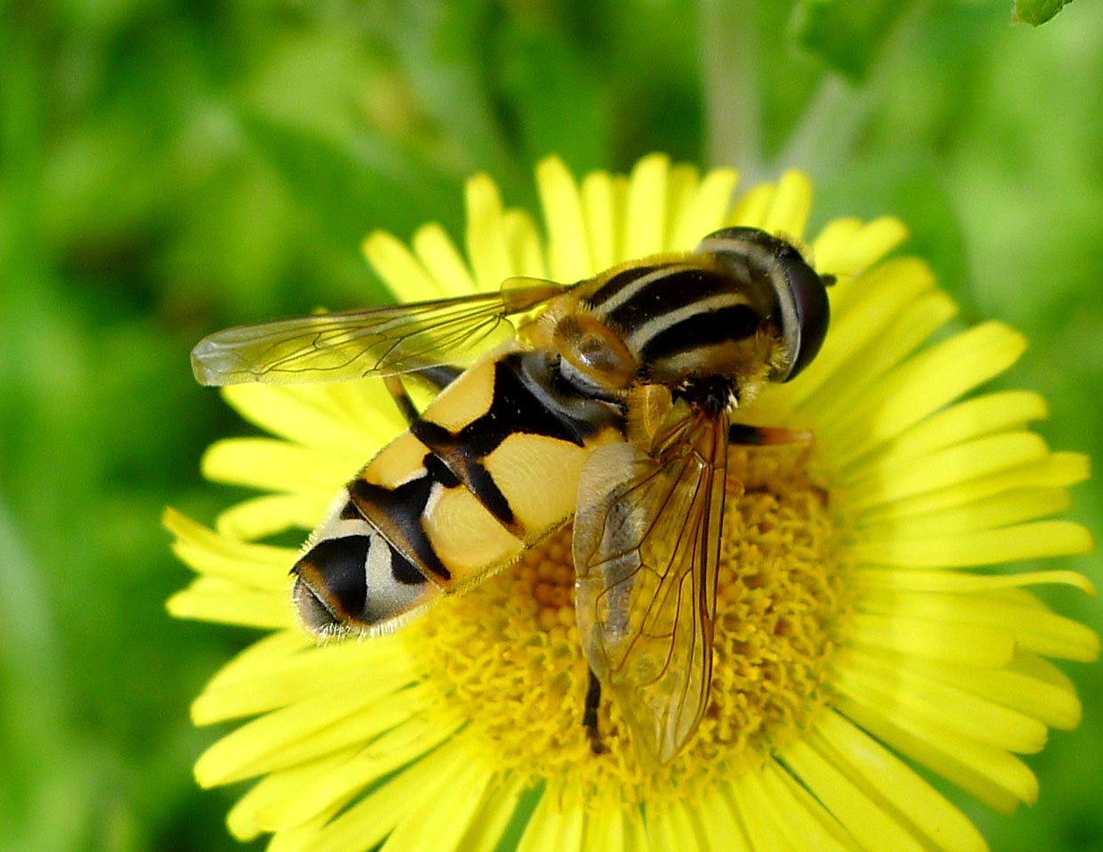 Helophilus trivittatus Syrphidae